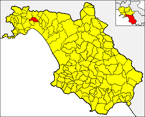 Locator map of the municipality of Baronissi (red) within the Province of Salerno